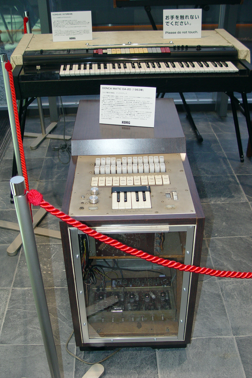 Korg Donca-Matic, one of the first drum machines, on display in the ground floor museum at their Tokyo office.